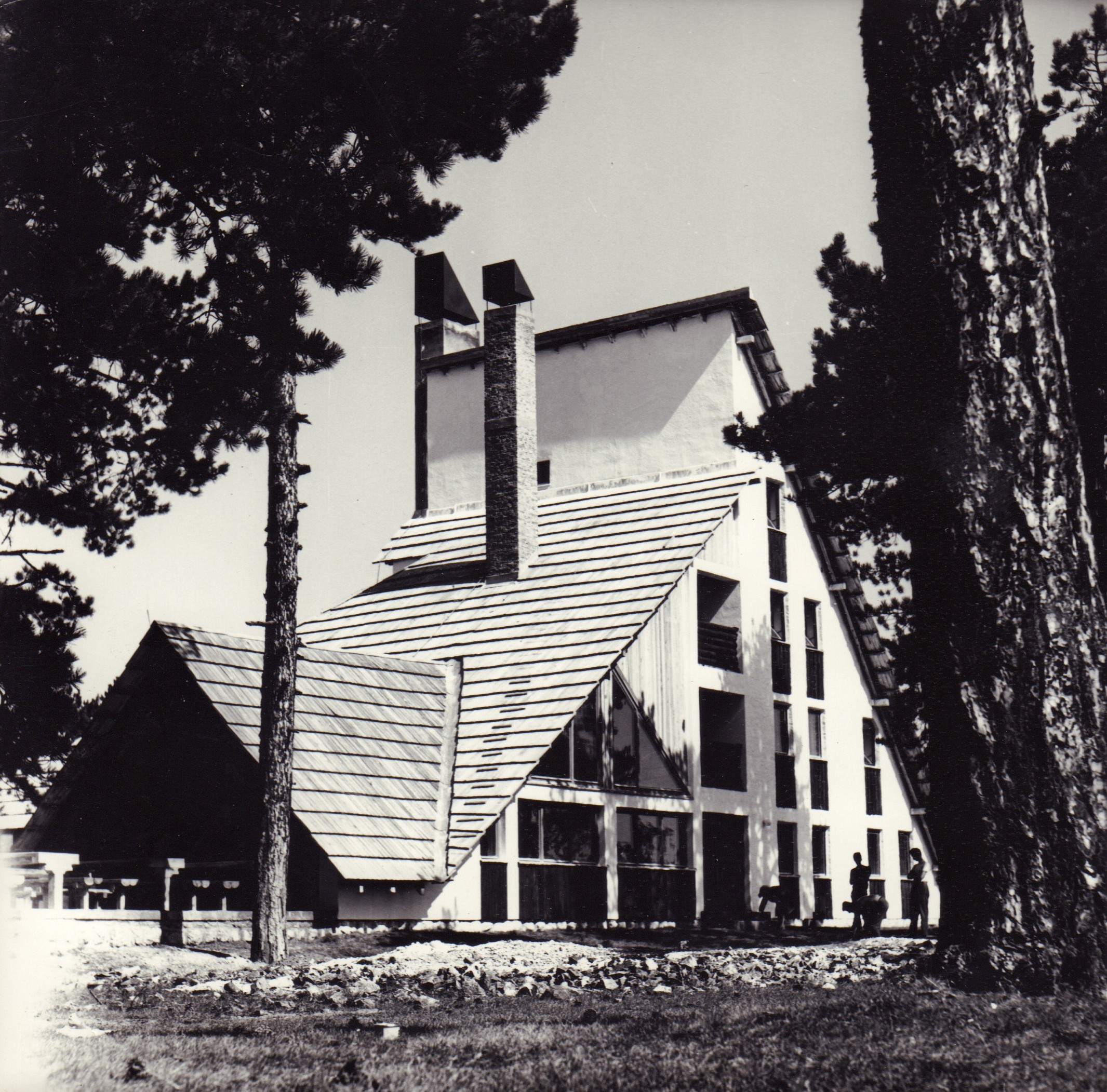 Resort on Tara projected by architect Mihajlo Mitrović.